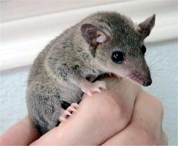 Photographer: User:Dawson